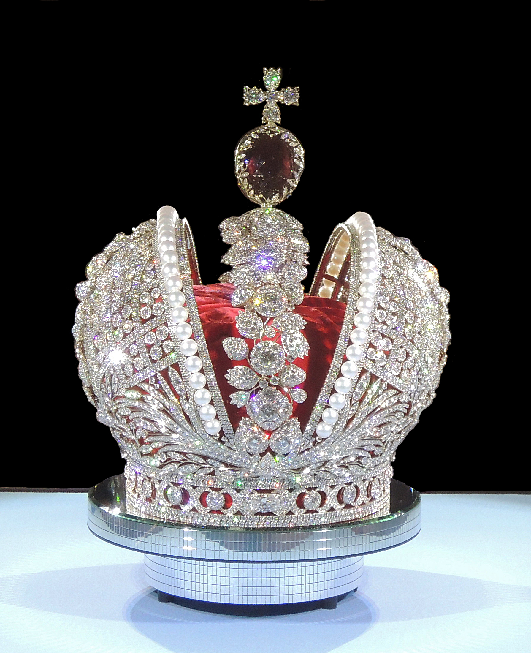 Jewelry project "Creation of Imperial Crown of Russia in modern interpretation" The project is timed to celebrate the 50th anniversary of the diamond industry in Russia, the flagship of which is manufacturer Kristall and it is the 10th anniversary of the Smolensk Diamonds group. The new crown was made of white gold (in original is used silver) and 11,426 diamonds (in original 4,936) of ideal faceting and quality characteristics. The spinel in the replica was replaced with a unique natural red tourmaline with a mass of about 400 karats. Read more